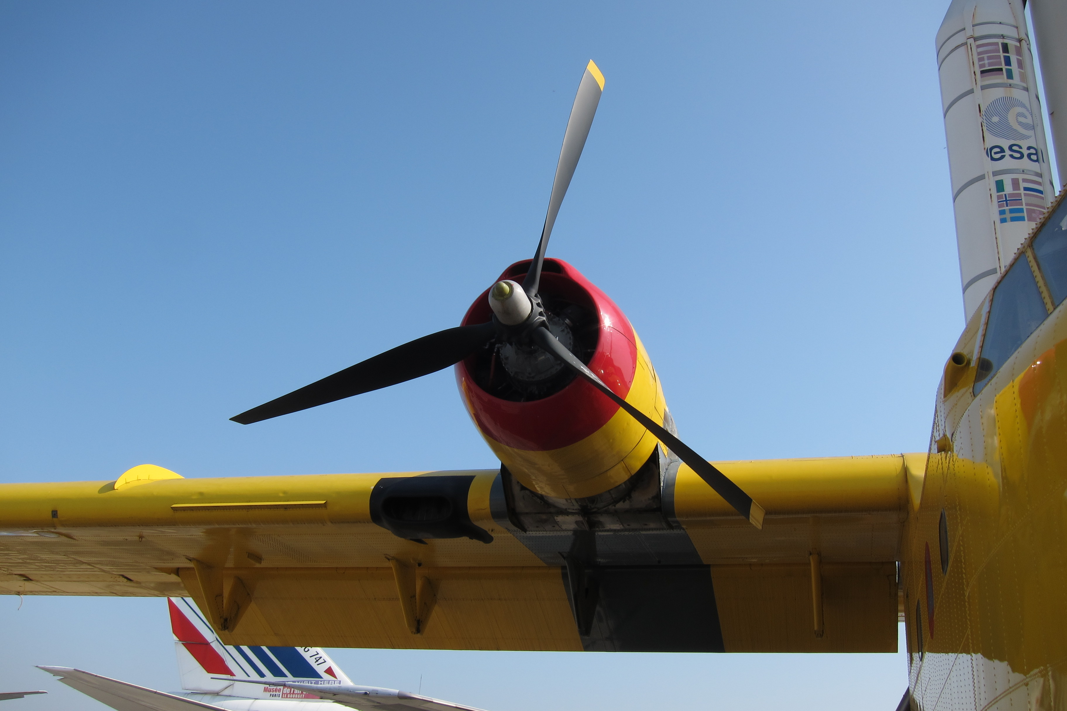 The right engine of the Canadair CL-215 aerial firefighting aircraft, as seen at the Musée de l’Air at the Bourget, France. A stall strip can be seen on the outer side of the engine; this ensures that both wings stall at the same angle of attack despite the differences in airflow due to the (identical) rotation of the engine propellers.